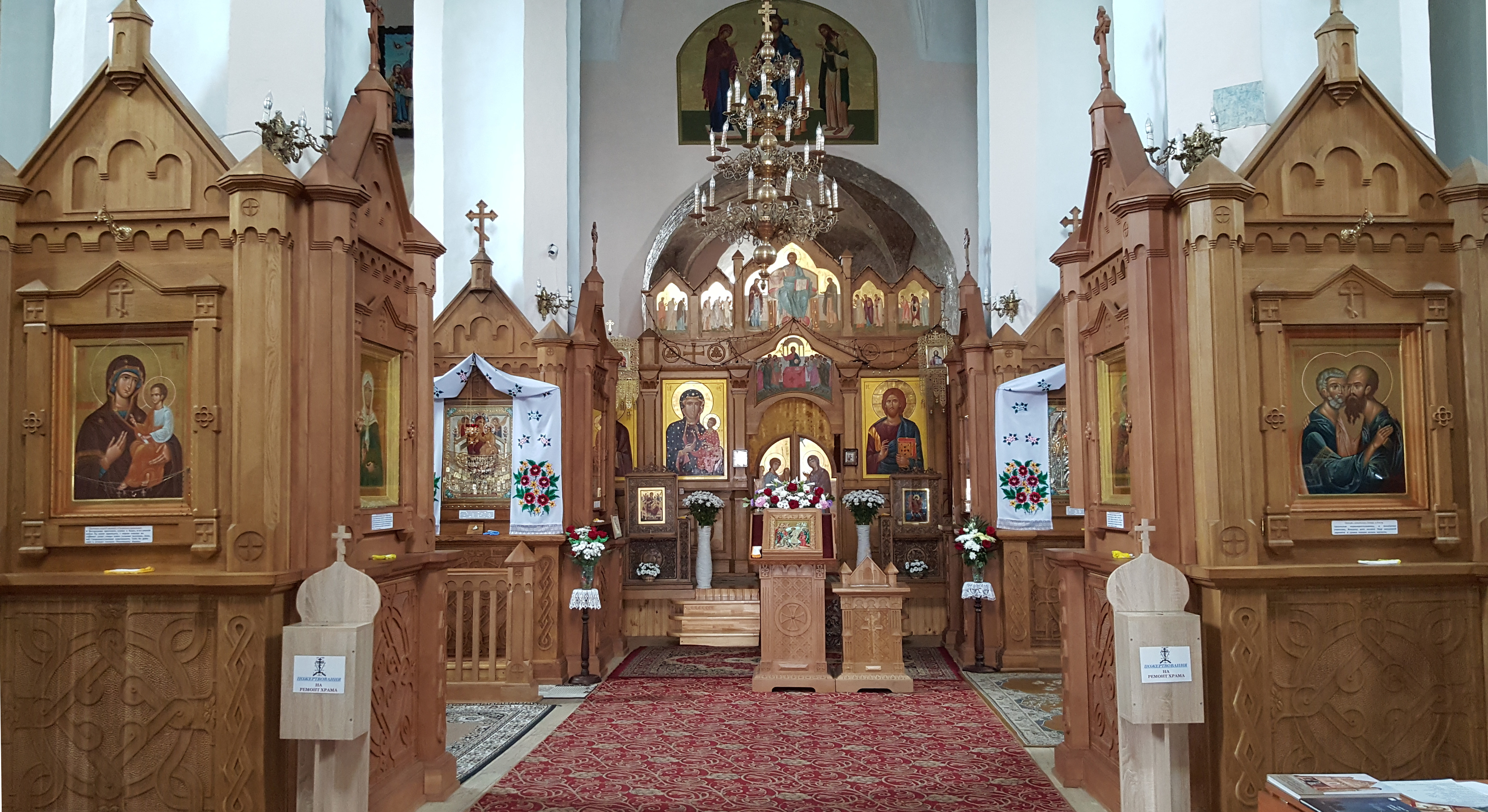 Fortified Church of St. Michael, Synkavichy - Interior